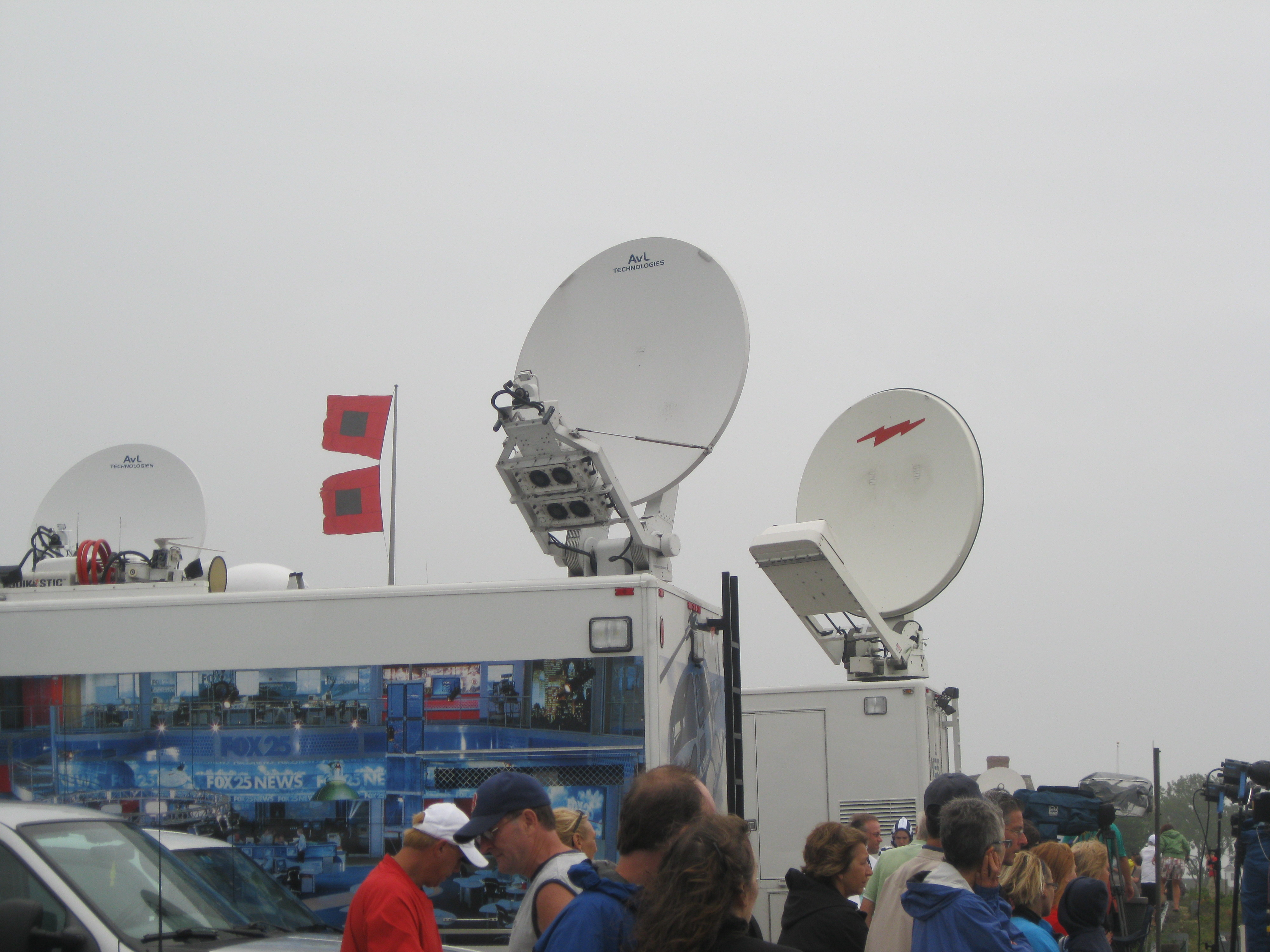 Media crews were sent to Chatham, Massachusetts to cover Hurricane Earl as it impacted Cape Cod. Residents and tourists gathered to watch the reporters make their stories and attempted to be a part of the show.